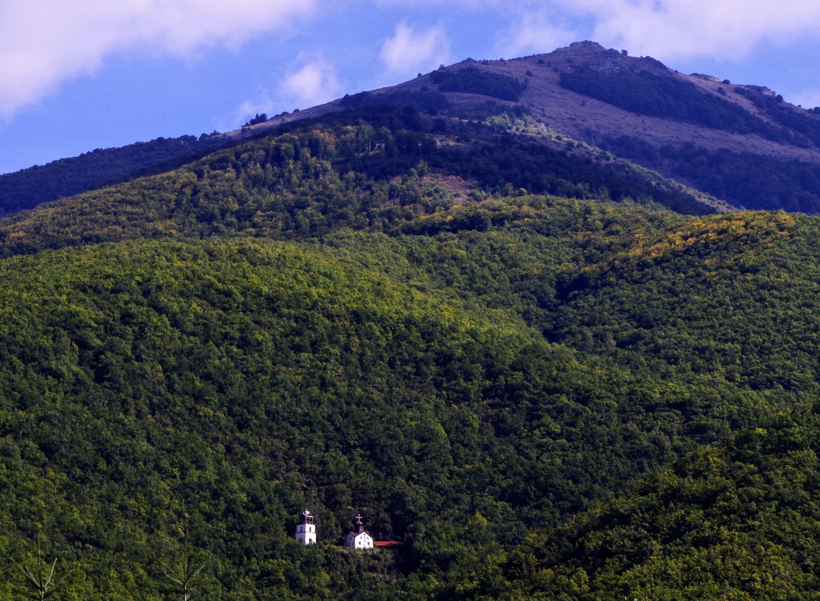 View of the Ljubojno Monastery in the village Ljubojno